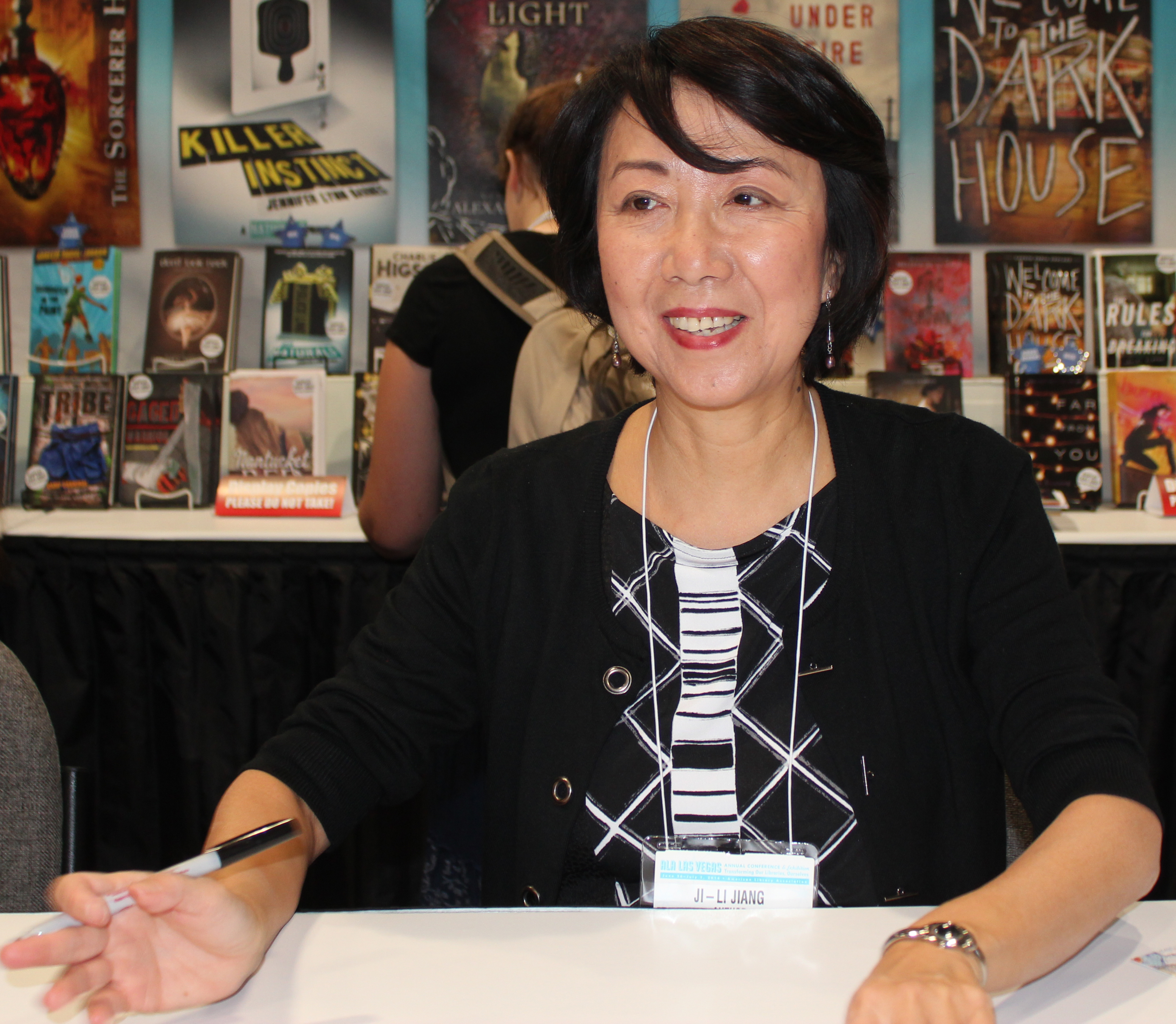 Ji-li Jiang, a Chinese-American author.